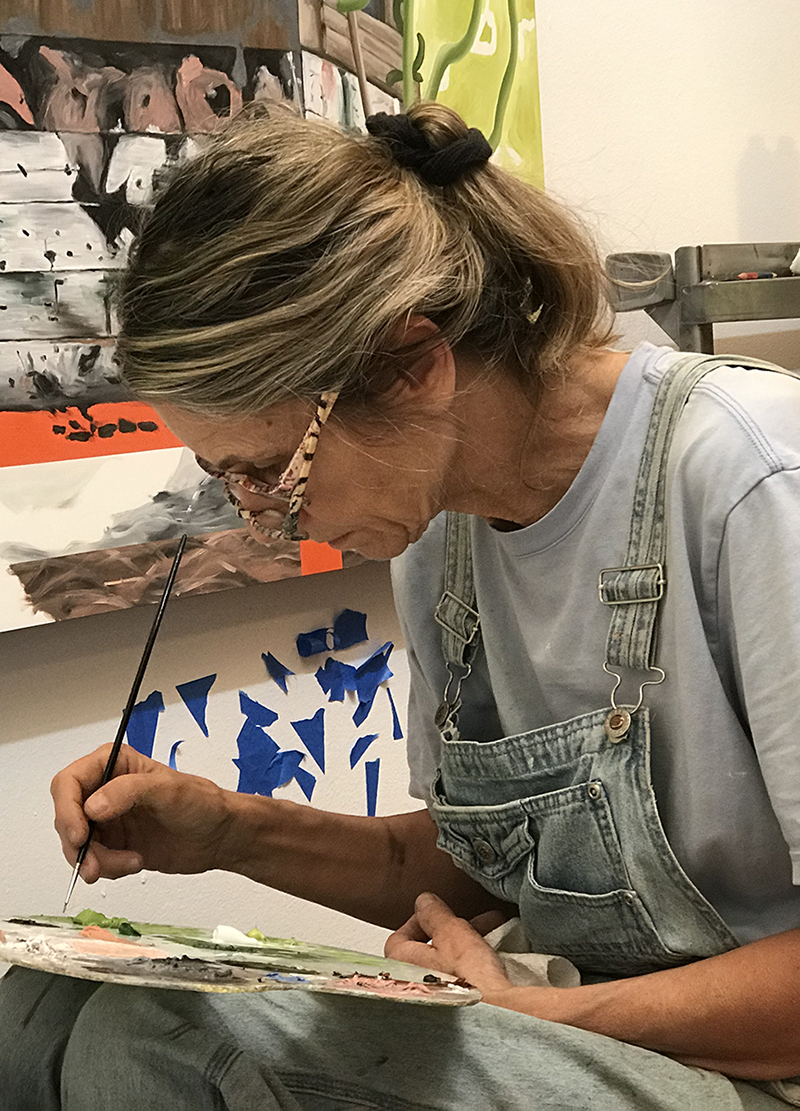 Lisa Adams working on The Flat Hope of Exile